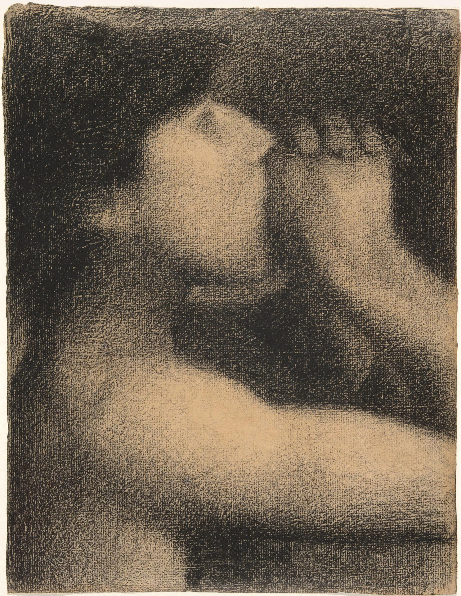 L'Écho, study for Une Baignade, Asnières (Bathing Place, Asnières). Conté crayon on Michallet paper. 31.2 × 24 cm. New Haven, Yale University Art Gallery (Inventory number 1966.80.11). Provenance: Unknown dateUnknown date: bequeathed to Yale University Art Gallery, New Haven, by Edith Malvina K. Wetmore